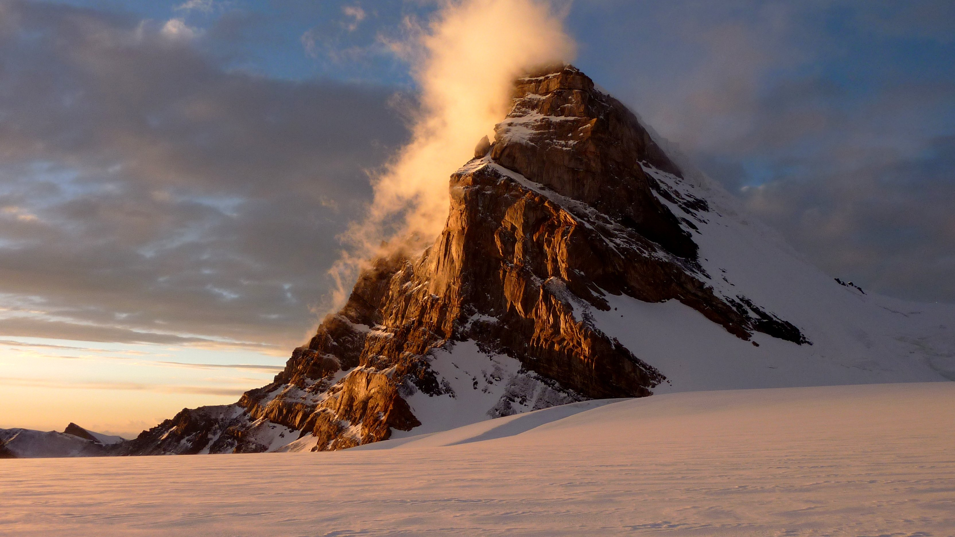 Mount Kun, 7087m, Nun Kun Range, Himalaya, India, Ladakh Sunset at Snowplateau